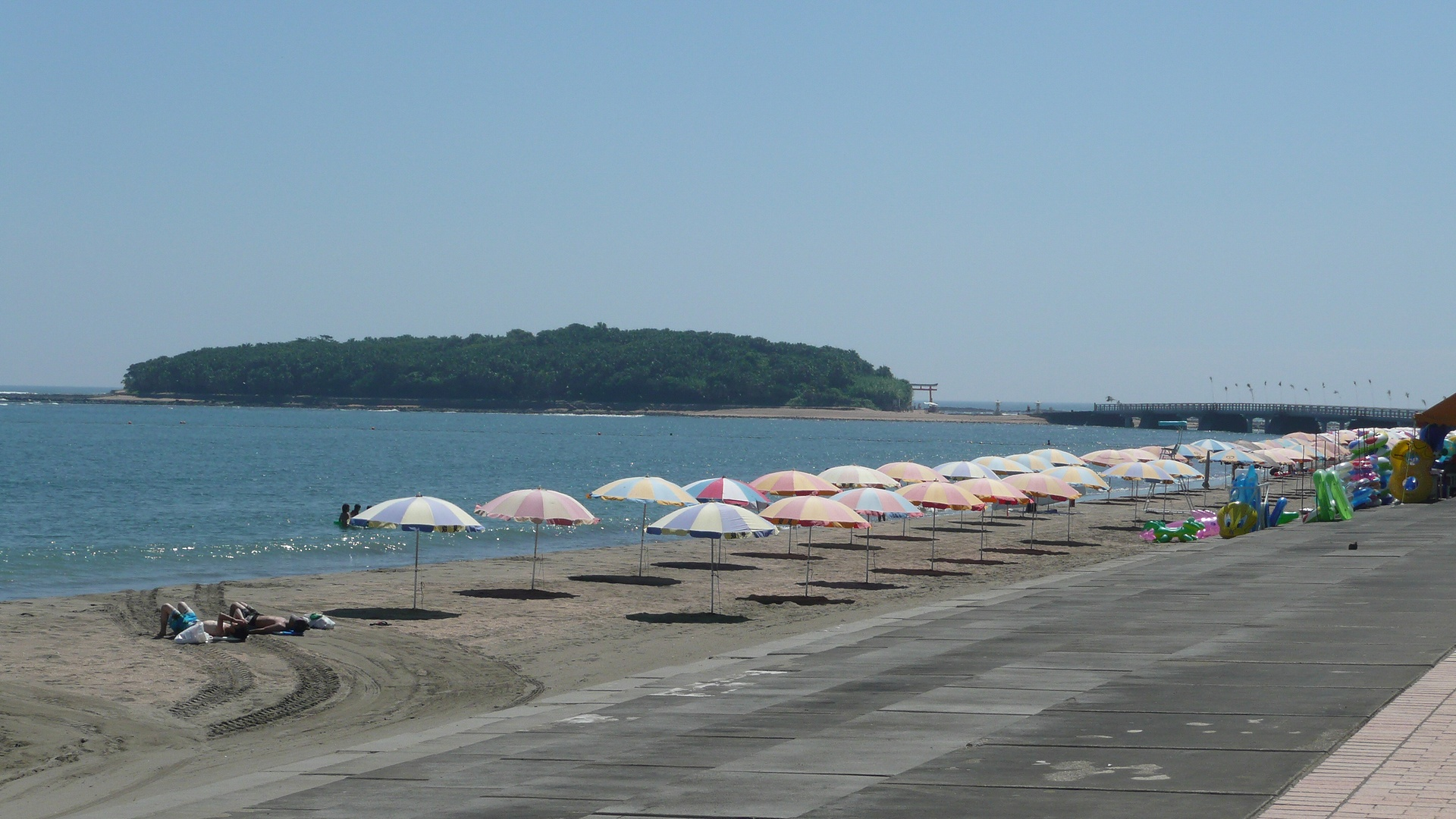 Aoshima Beach Resort (Miyazaki, Japan)